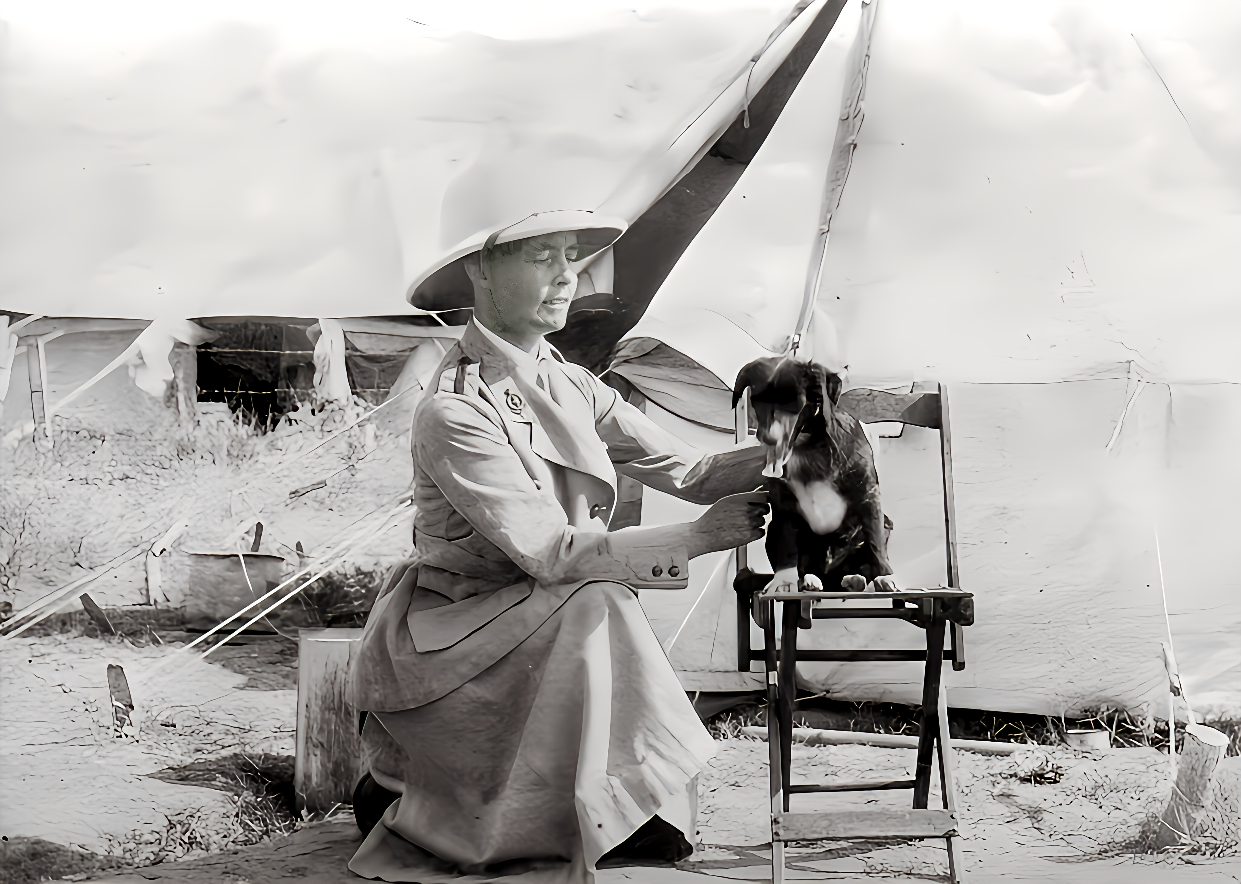 “Mary Blair at Selonika Hospital, No 65, c.1918”, New Zealand online cenotaph